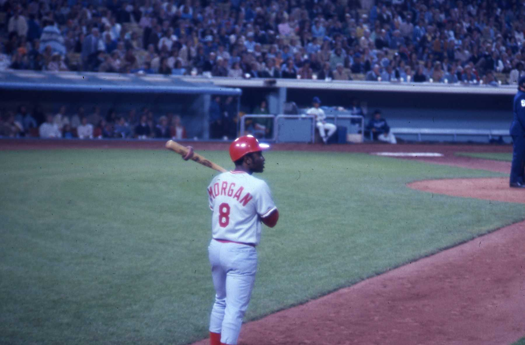 Major League Baseball player Joe Morgan of the Cincinnati Reds.